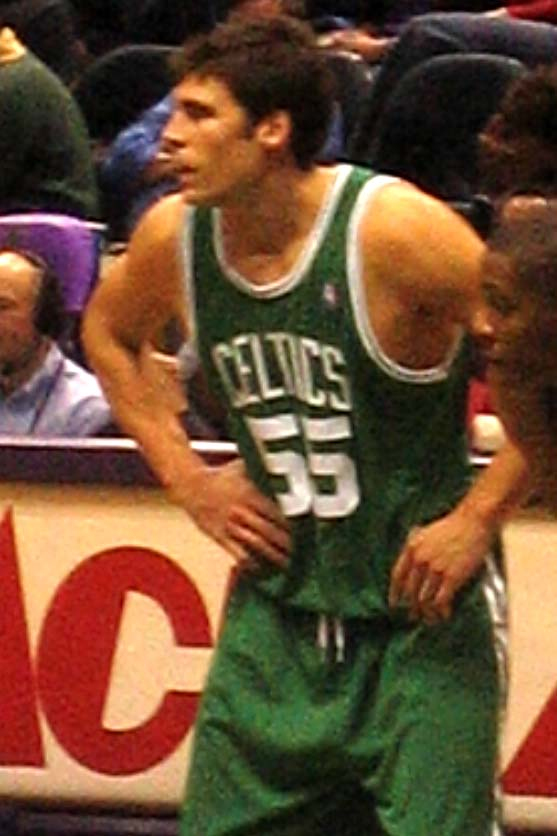 Wally Szczerbiak This file has been extracted from another file: Wally Szczerbiak Jamaal Magloire Milwaukee Bucks vs Boston Celtics - January 29th, 2006.jpg